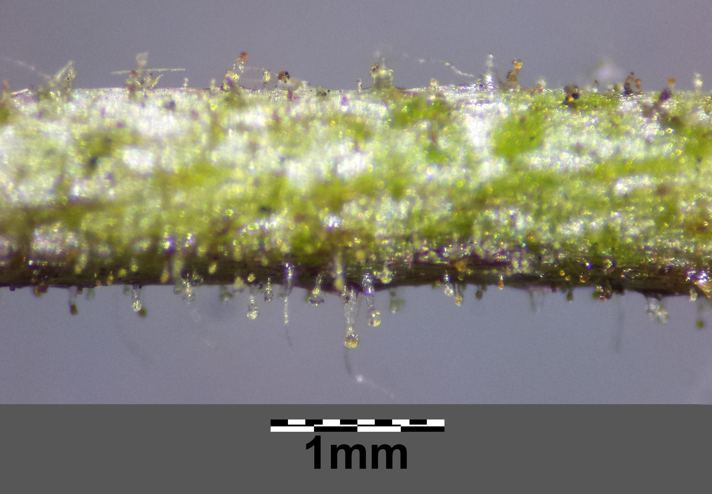 Stipe with gland hairs Taxonym: Dittrichia graveolens ss Fischer et al. EfÖLS 2008 ISBN 978-3-85474-187-9 Location: Korneuburg, Lower Austria - ca. 170 m a.s.l. Habitat: gap in street surface